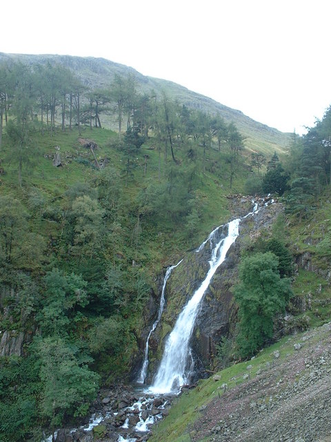 Taylor Gill Force. On Seathwaite Gill so why Taylor Gill? Seathwaite Fell beyond the pines